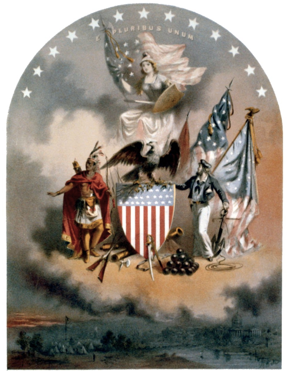 Arms of the United States of America. An elaborate martial allegory of the United States. Liberty or Columbia, wearing a Phrygian cap and armed with sword, shield, and American flag, is enthroned in the clouds. The words "E Pluribus Unum" and an arc of thirteen stars appear above her. Below, an eagle perches atop a shield with the stars and strips. In his talons he holds arrows and an olive branch. At left stands an American Indian, with a bow in his hand. At right is a sailor with an anchor and four flags. Around the base of the shield are muskets, tomahawks, cannon, cannonballs, and a sword. Below, almost hidden in darkness, is a Union encampment (left) in sight of the U.S. Capitol and the Potomac River (right). 1 print on wove paper : lithograph printed in colors ; image 48 x 33.5 cm